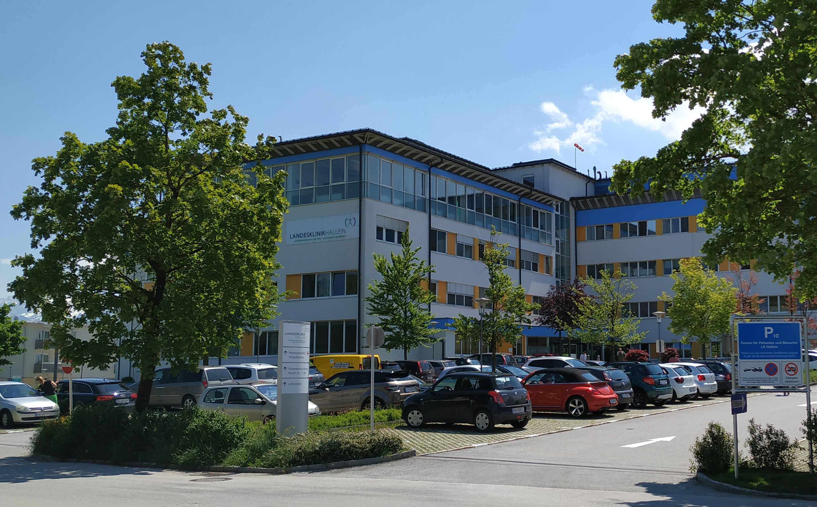 Landesklinik Hallein, parking space in foreground, hospital in background